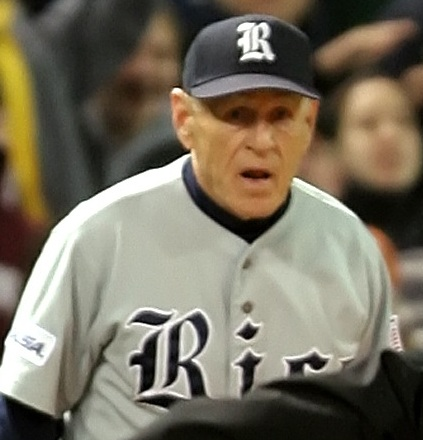 A Rice baserunner is called out at third base after a Texas fielder applies a tag during a February 2006 game at UFCU Disch–Falk Field.